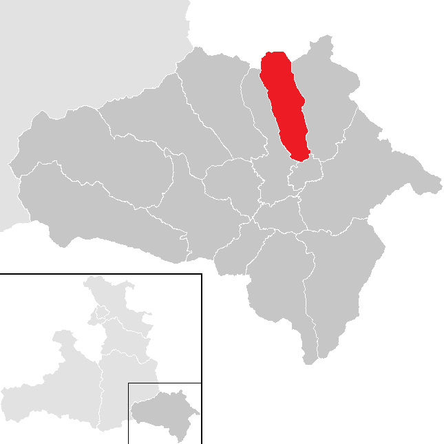 District Tamsweg